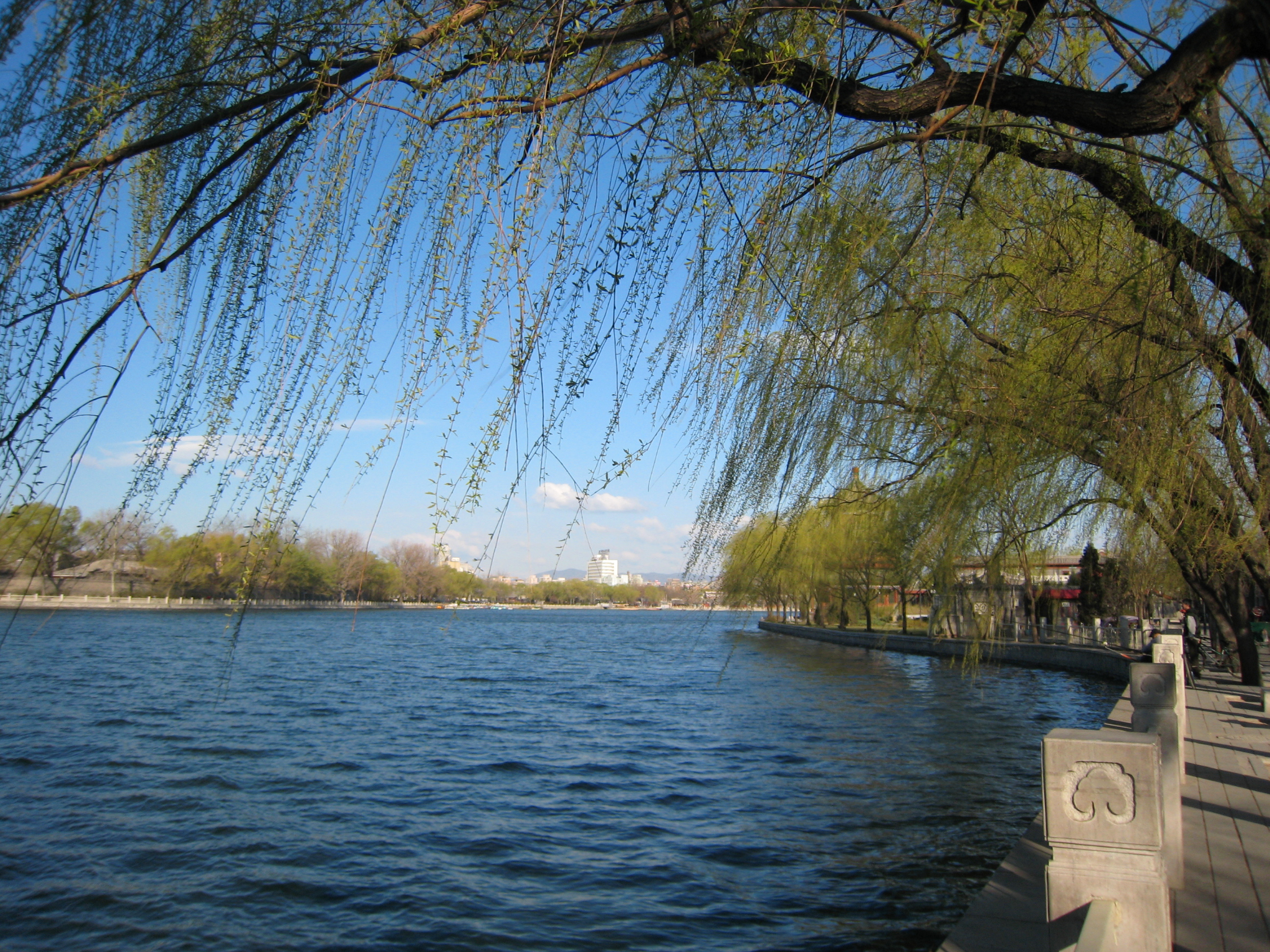 View of the shichahai lake in Beijing